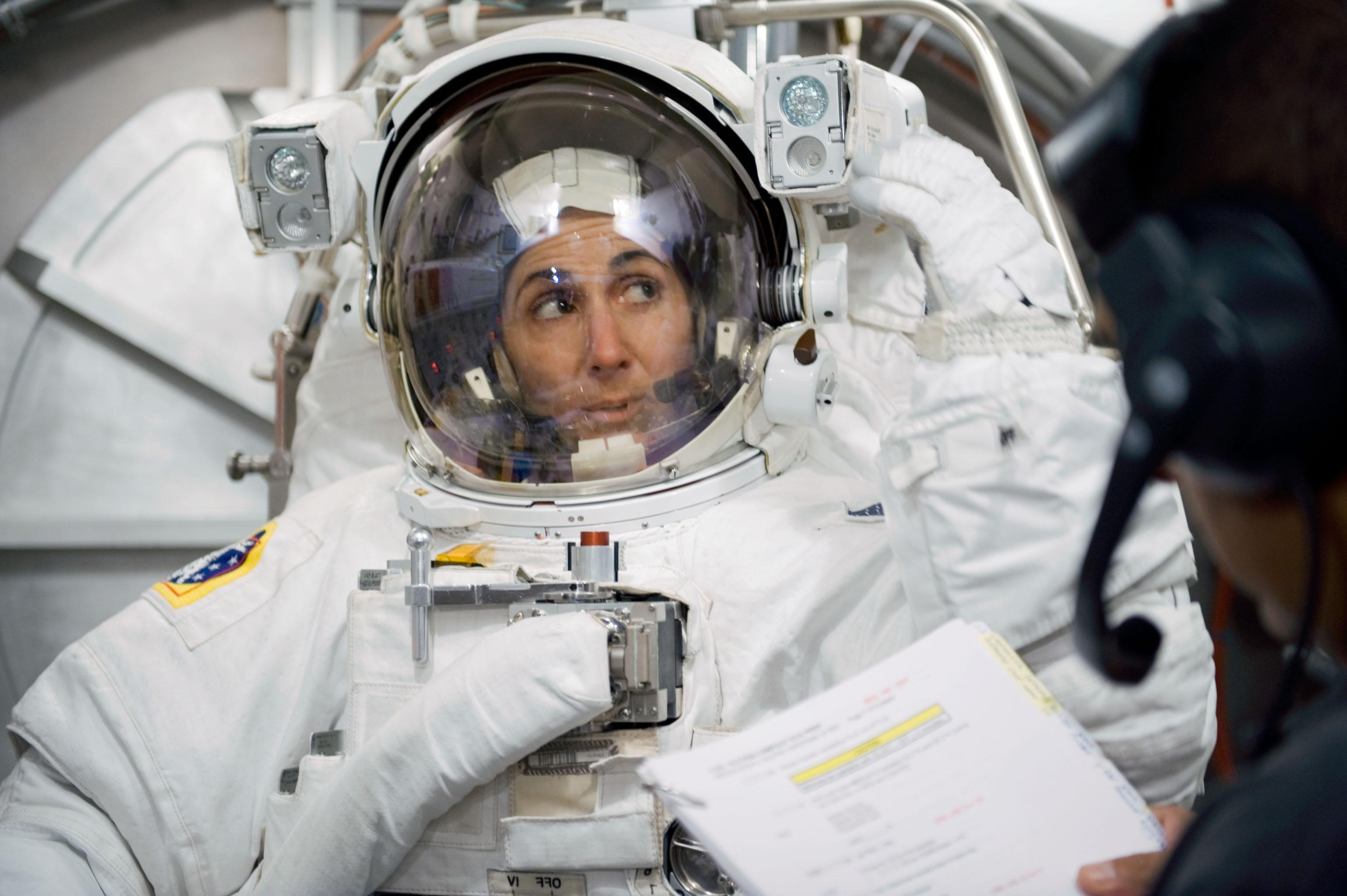 STS-128 astronaut Nicole Stott participates in an Extravehicular Mobility Unit (EMU) spacesuit fit check in the Space Station Airlock Test Article (SSATA) in the Crew Systems Laboratory at NASA's Johnson Space Centre. Fellow astronaut Jose Hernandez assisted Stott. Stott will join Expedition 20 as a flight engineer after launching to the station with the STS-128 crew.